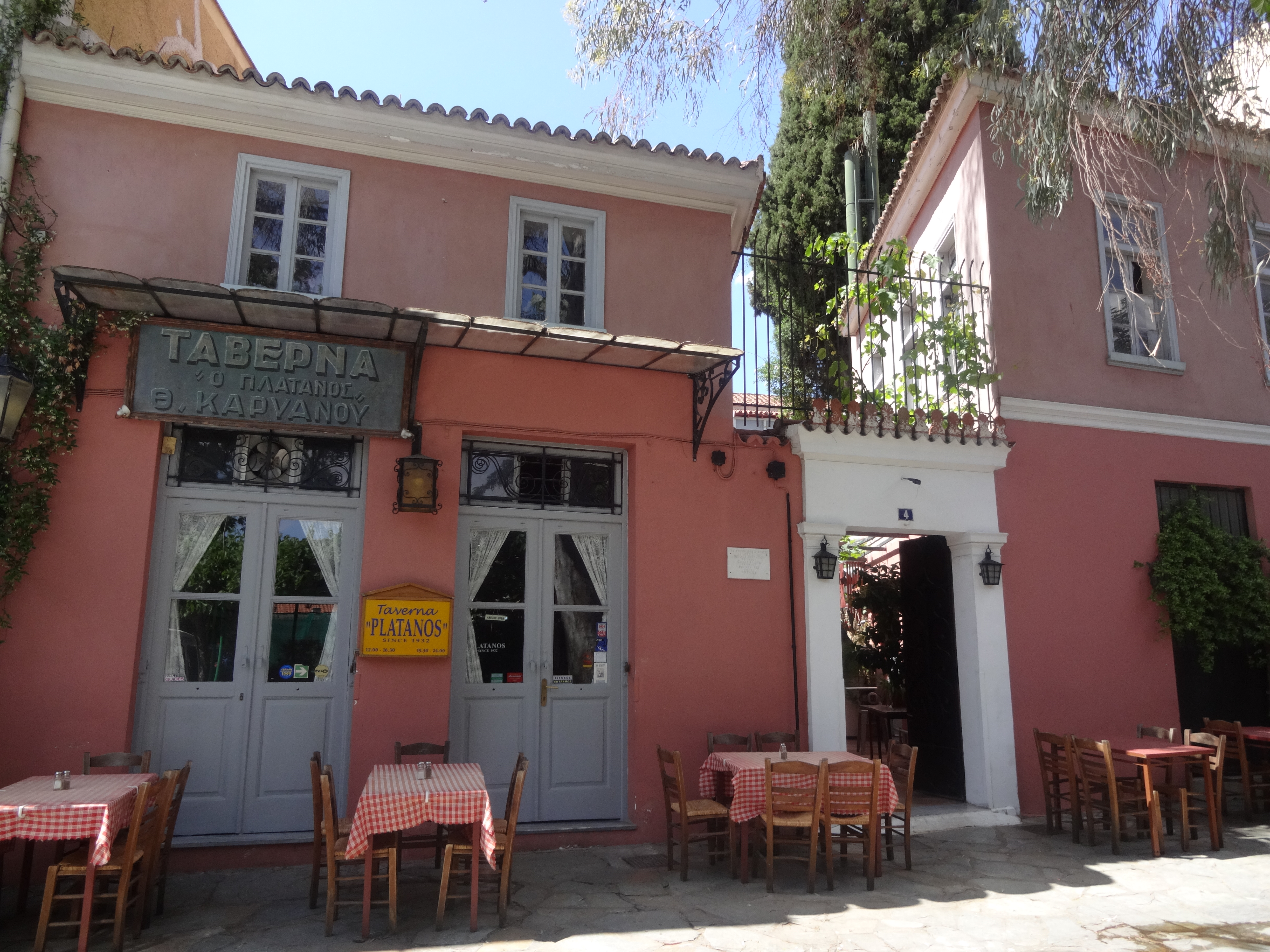 Tavern “Platanos” (ex Atelier of P.Vizantios-P.Kalligas-F.Rok)